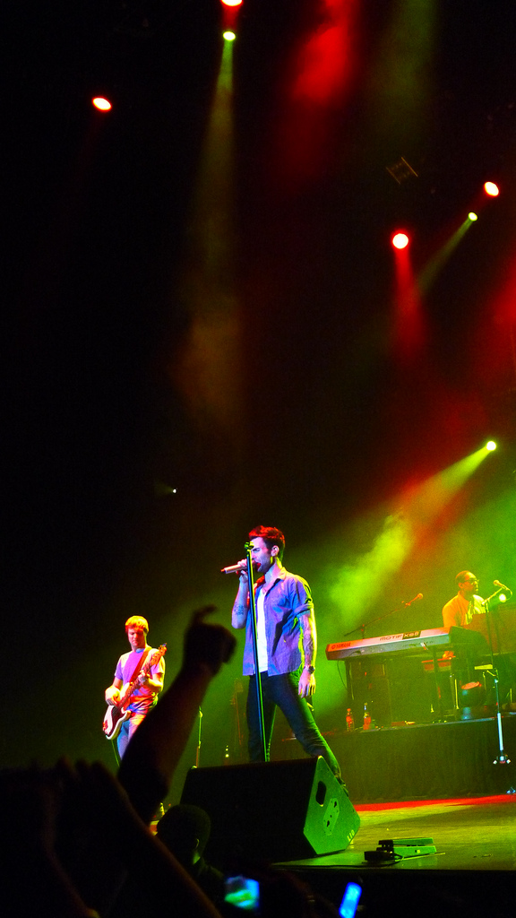 Maroon 5 live show in Hong Kong, China.